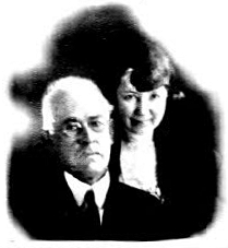 Photo (1922) of William A. Spinks, American billiards champion, co-inventor of modern billiard chalk, oil investor, flower farmer and avocado farmer (originator of the Spinks avocado variety), with his wife Clara. This is a derivative work, as it is a cropped copy of his passport application, to just show them in the photo, and cleaned up to the extent possible.